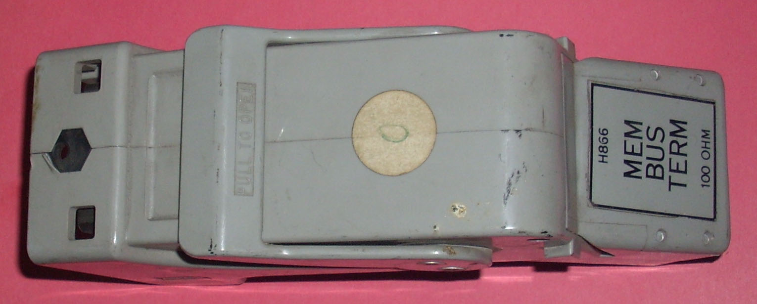 DEC-10 Memory Bus Quick Latch Terminator H866